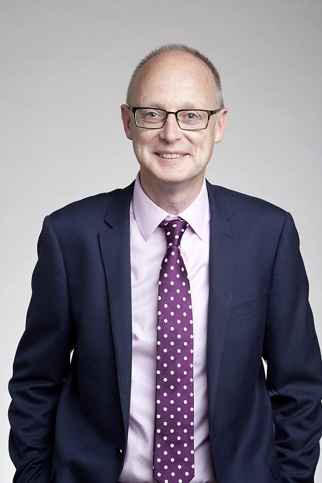 Kenneth H. Wolfe FRS MRIA is Professor of Genomic Evolution at University College Dublin (UCD), Ireland. Attribution: The Royal Society